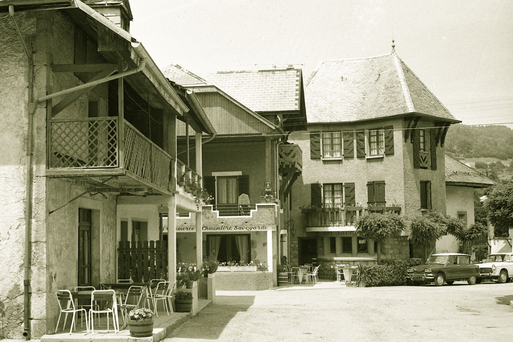 Buildings facing main square in Thorens-Glières, France, 1969.jpg Other information Photo by George Garrigues.